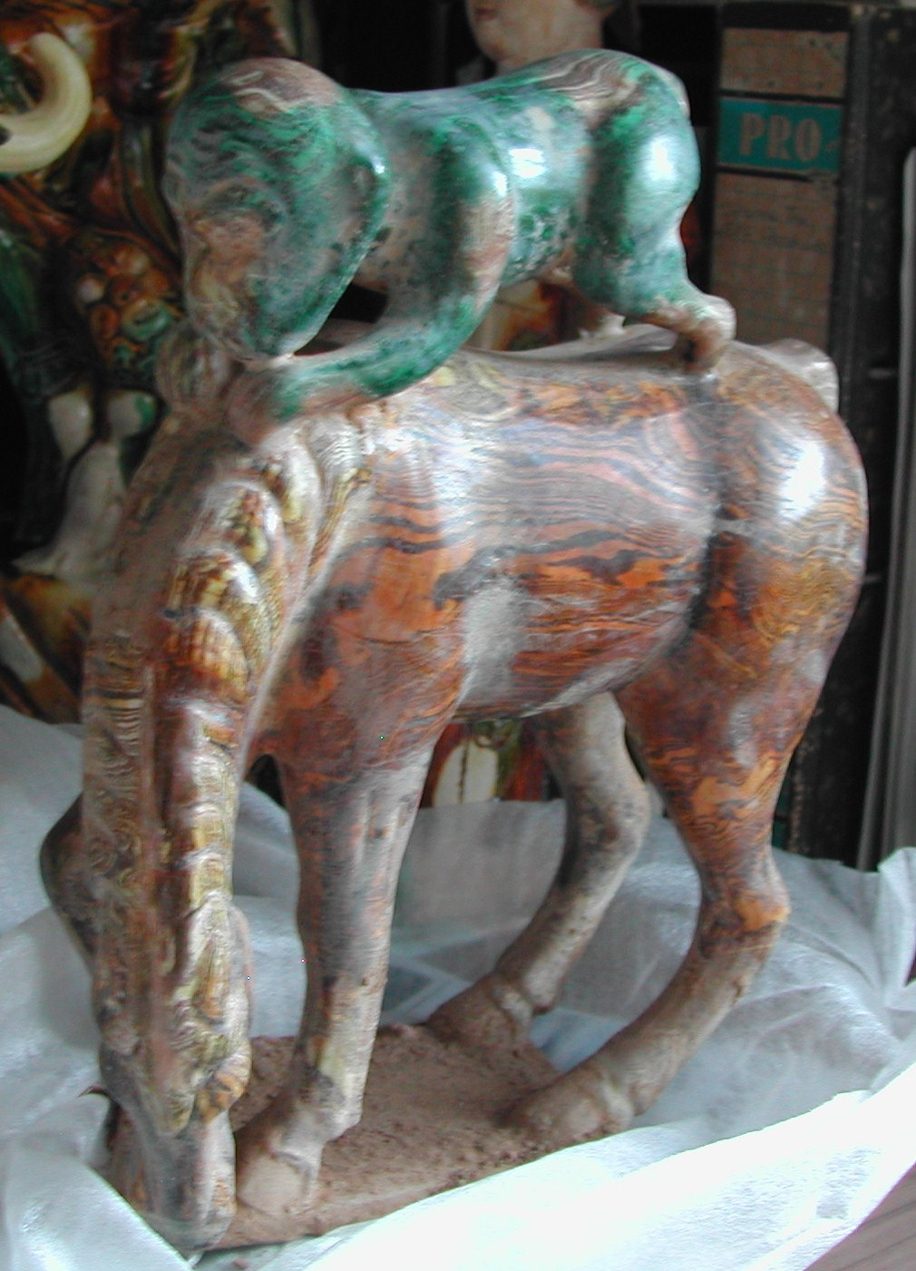 Marbleized tri-color glaze clay statue of a monkey piggy-back on a horse.